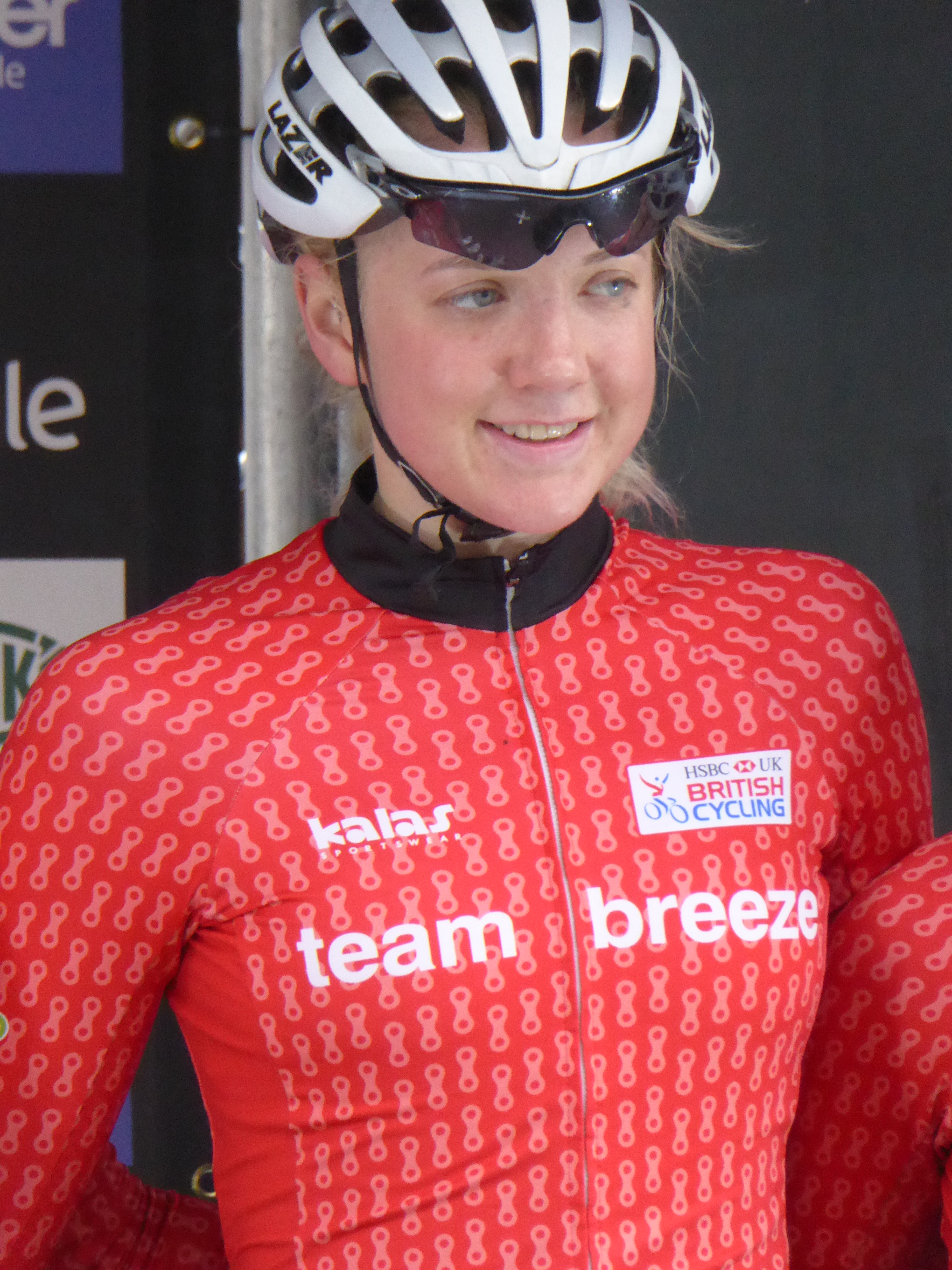 Melissa Lowther (Team Breeze), prior to Round 7 of the Matrix Fitness GP Series in Motherwell, on 23 May 2017.